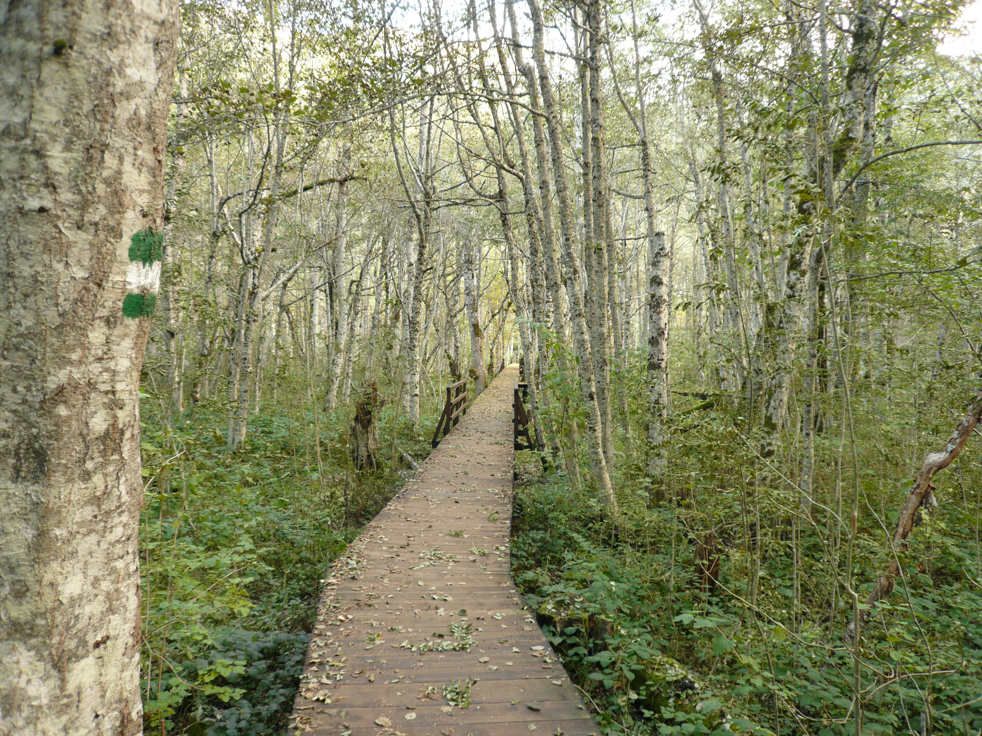 Path through the forest around Biogradsko jezero, Montenegro